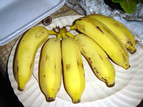 picture of a bunch of bananas, taken by user Carioca